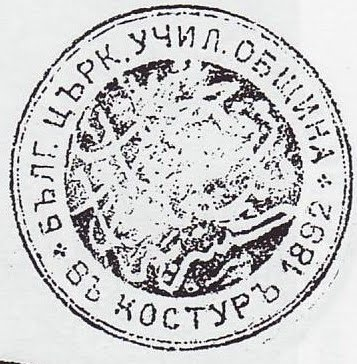 Seal of the Kostur (Kastoria) Bulgarian Community 1892.